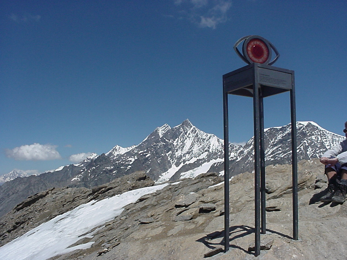 Peak of Oberrothorn with Dom, Täschhorn (both left) and Alphubel (right)